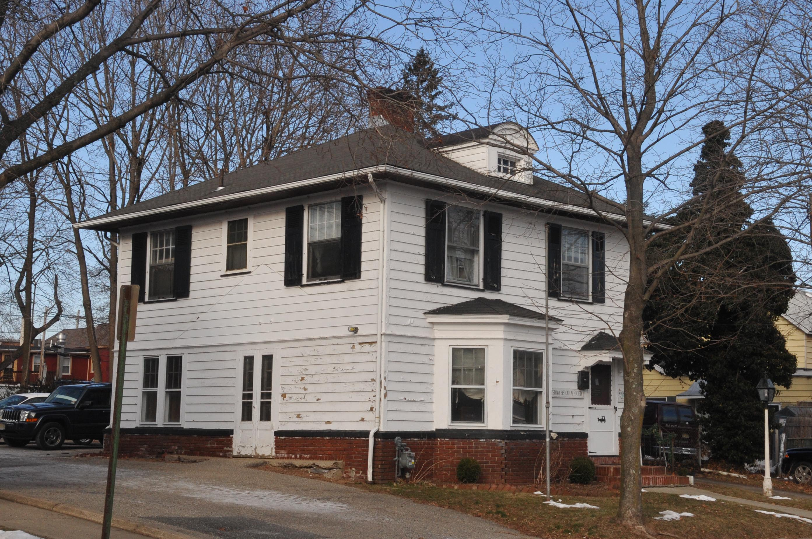 HACKETTSTOWN HISTORICAL SOCIETY MUSEUM HOUSED IN THE 1915 THEODORE G. PLATE HOME; THIS HOUSE IS NOT ON THE NATIONAL REGISTRY HOWEVER IT IS LISTED ON WIKIPEDIA'S MUSEUMS OF NEW JERSEY AND THERE IS NO PICTURE.